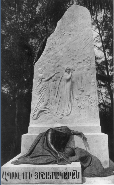 The Istanbul Armenian Genocide memorial, also known as Huşartsan, was a marble monument that became the first memorial dedicated to the victims of the Armenian Genocide. It was erected in 1919 and located in today's Gezi Park near the Taksim Square in Istanbul, Ottoman Empire. The monument was located on the premises of the former Pangaltı Armenian Cemetery. In 1922, during the Turkish National Movement, the monument was dismantled and subsequently lost under unknown circumstances.